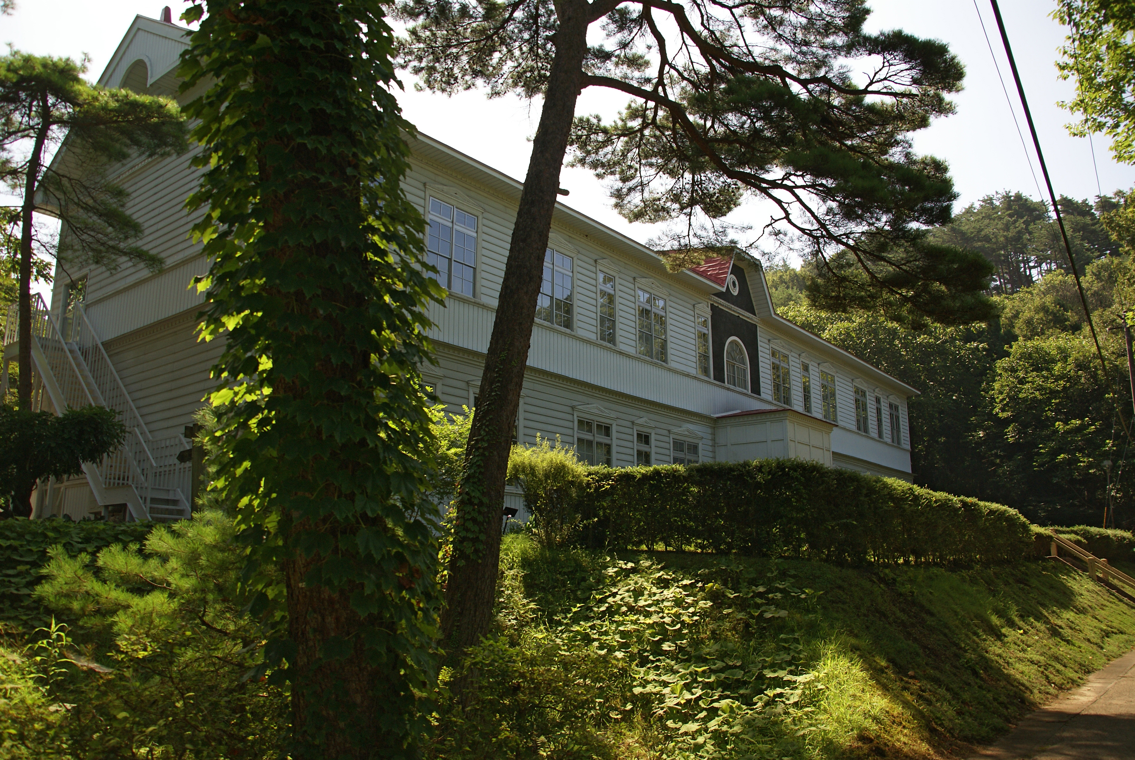 Michinoku Folk Village in Kitakami, Iwate prefecture, Japan